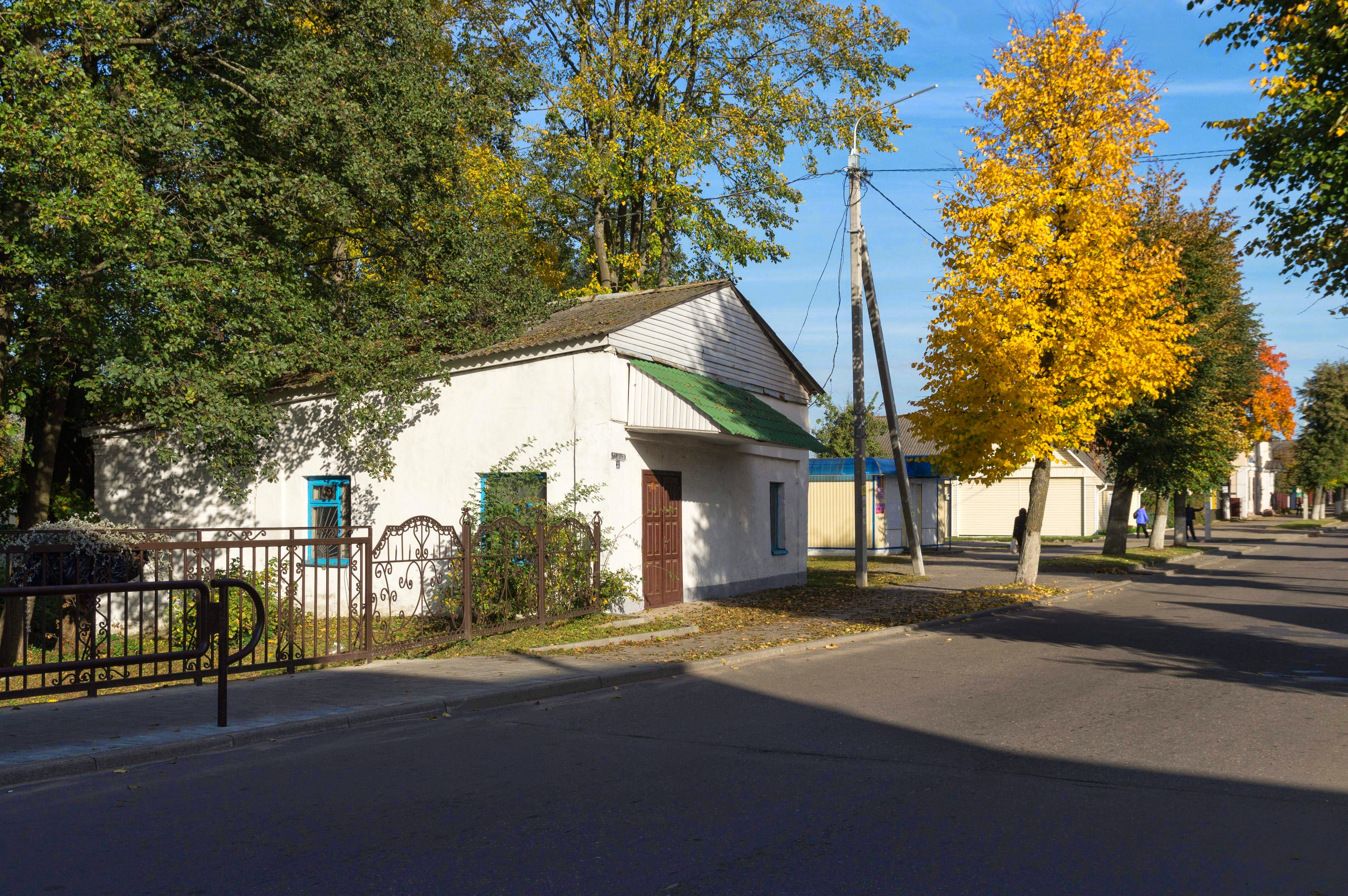 Former home Berka Berman